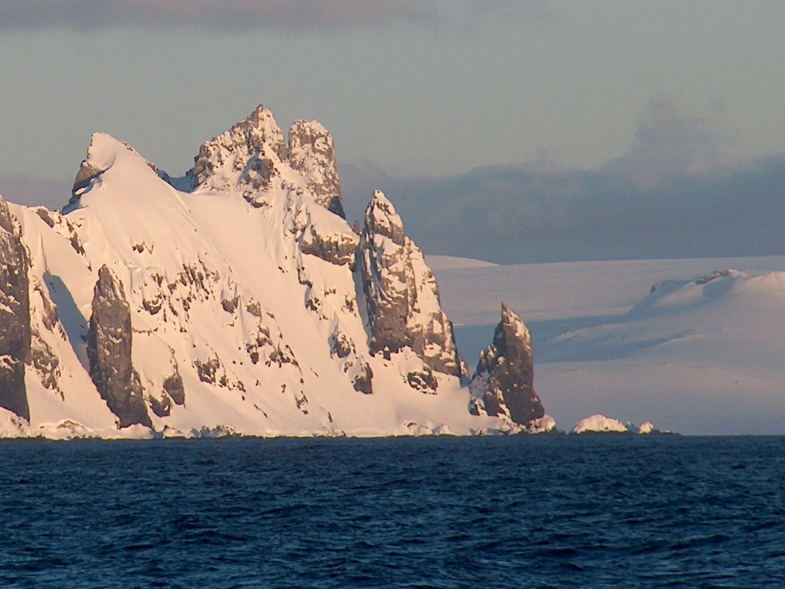 source-Lyubomir Ivanov